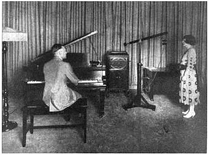 Photograph of Maude Gray, Prima Donna of the Aborn Musical Comedy Co., performing at WBZ radio in Springfield, Massachusetts.